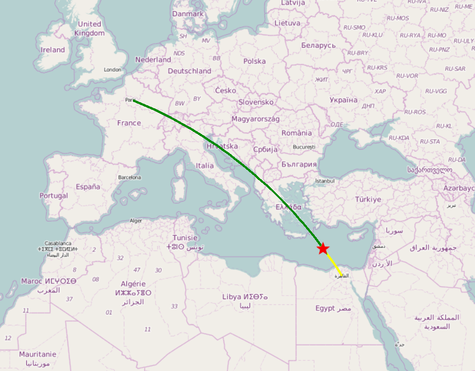 Route of flight MS804 in green. The red star indicates where SU-GCC's ADS-B signal was lost, and the yellow line indicates its intended flightpath.